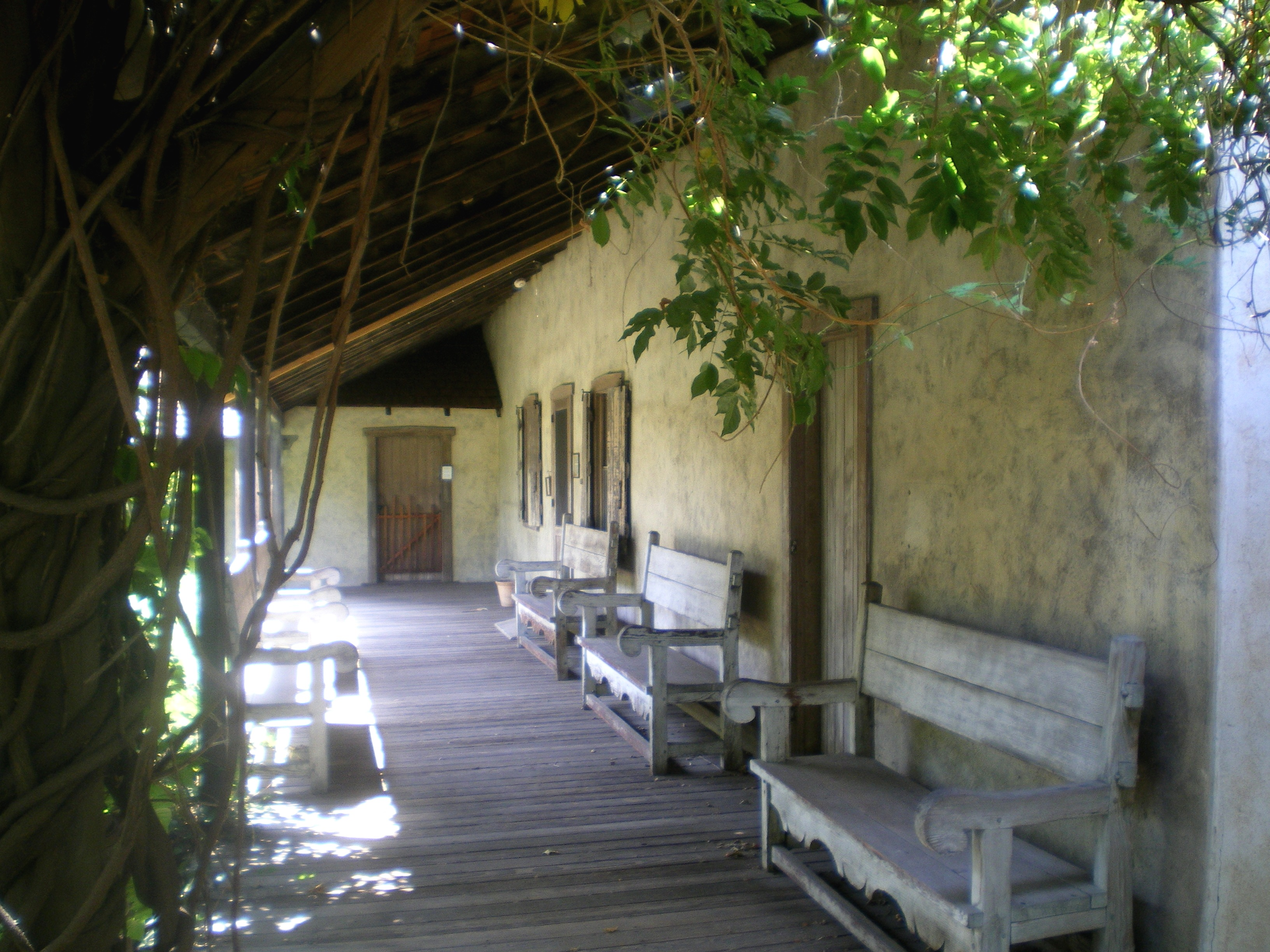 Adobe de Palomares (Ygnacio Palomares Adobe), corner of Arrow Hwy. and Orange Grove Ave., Pomona, California